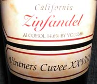 Picture of a wine label indicating "Vintner's Cuvee XXVIII" I took this picture and release it into the public domain. CFang 01:49, 6 July 2006 (UTC)